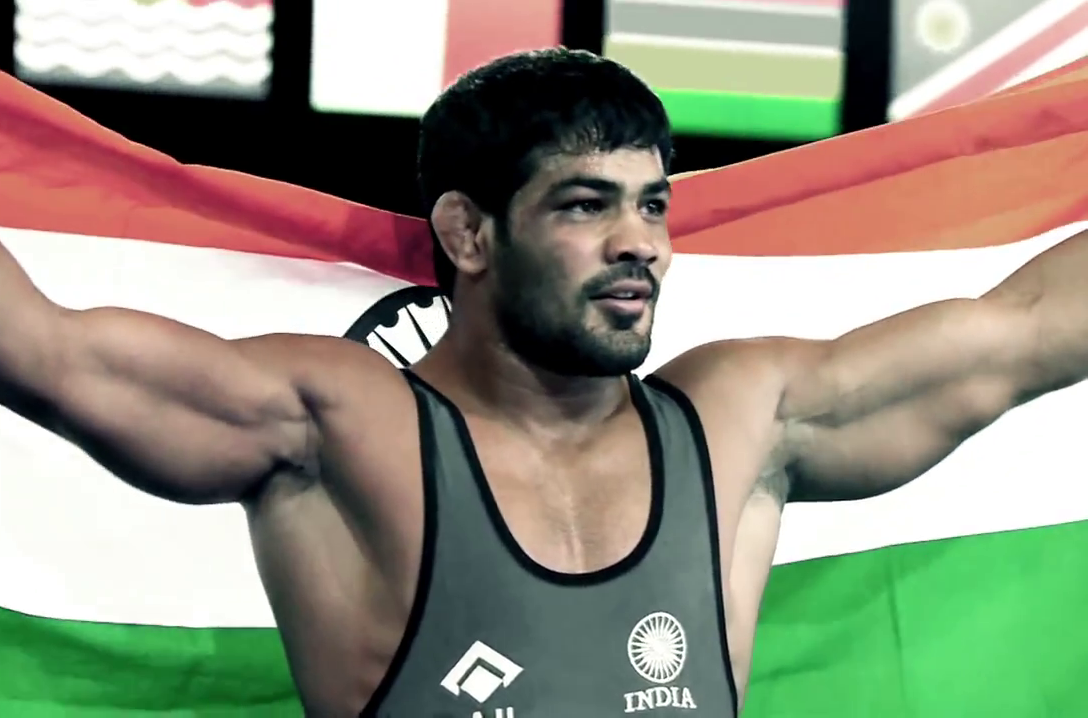 Screenshot of Sushil Kumar (wrestler) from the 2014 Commonwealth Games.